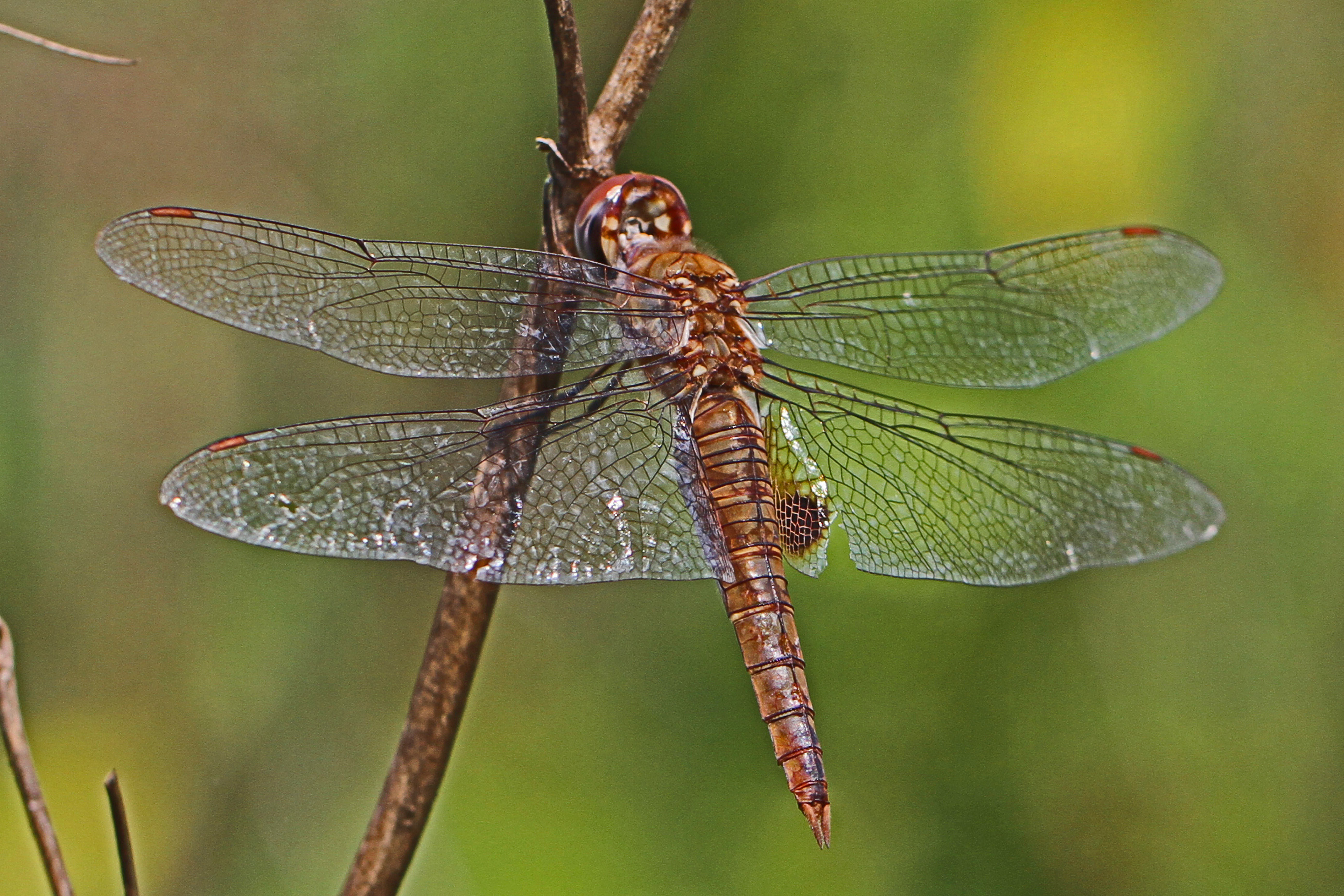 Spot-winged Glider - Pantala hymenaea, Bles Park, Ashburn, Virginia